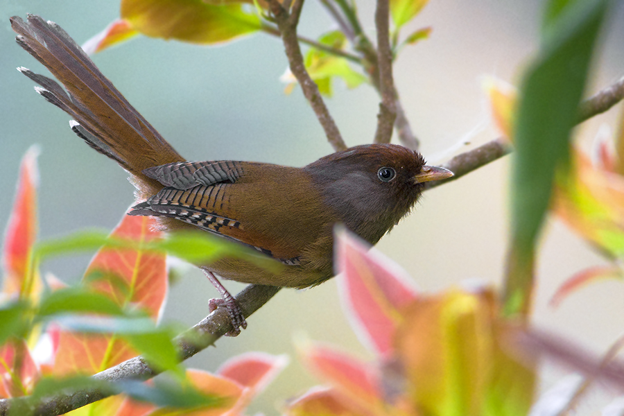 The species Rusty-fronted Barwing had been photographed from Pangolakha Wildlife Sanctuary in East Sikkim, India on 03.04.2016.